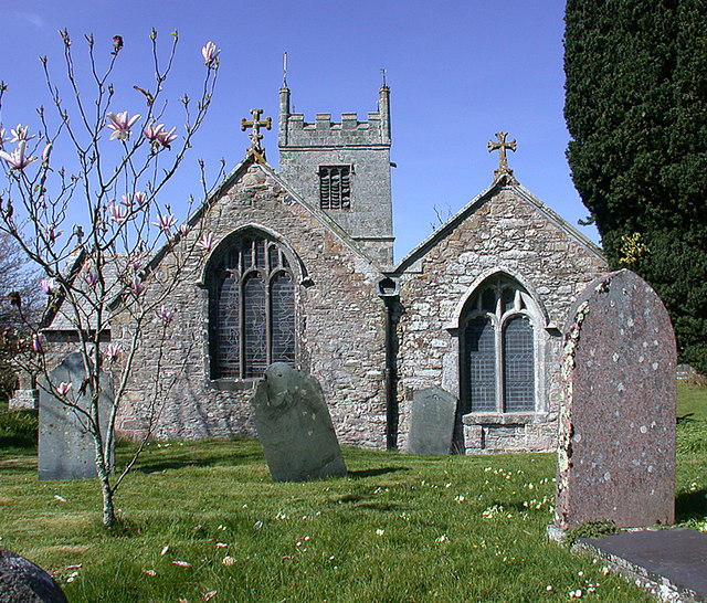 Saint Colan Church, Springtime.